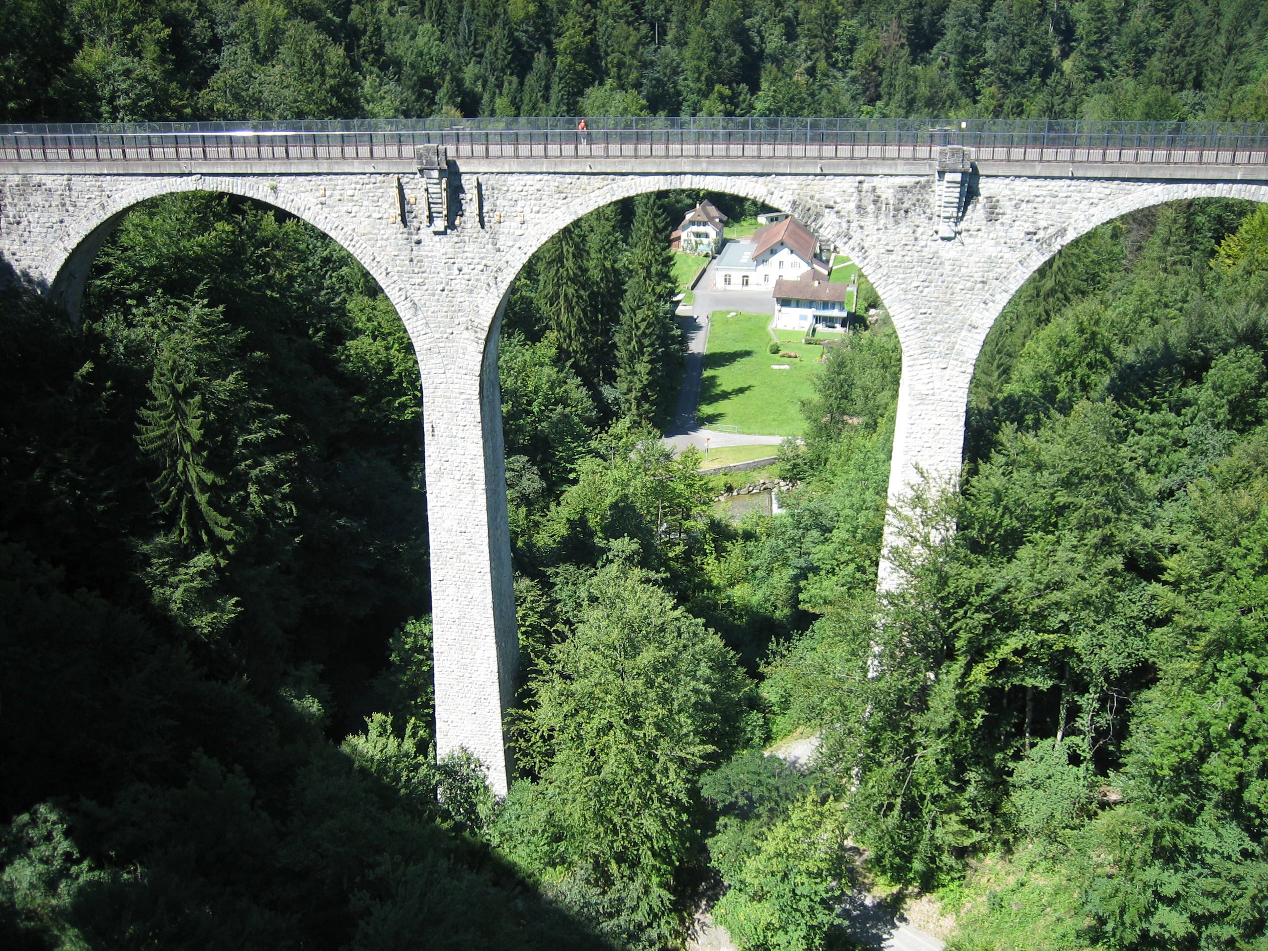 Bridge over the Lorze in Zug, Switzerland